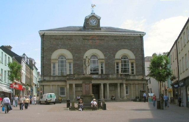 Guildhall Square, Carmarthen. The pedestrianised square contains a statue and the court house (where sittings of Carmarthen Crown Court and Carmarthen County Court are held). It is surrounded by shops.